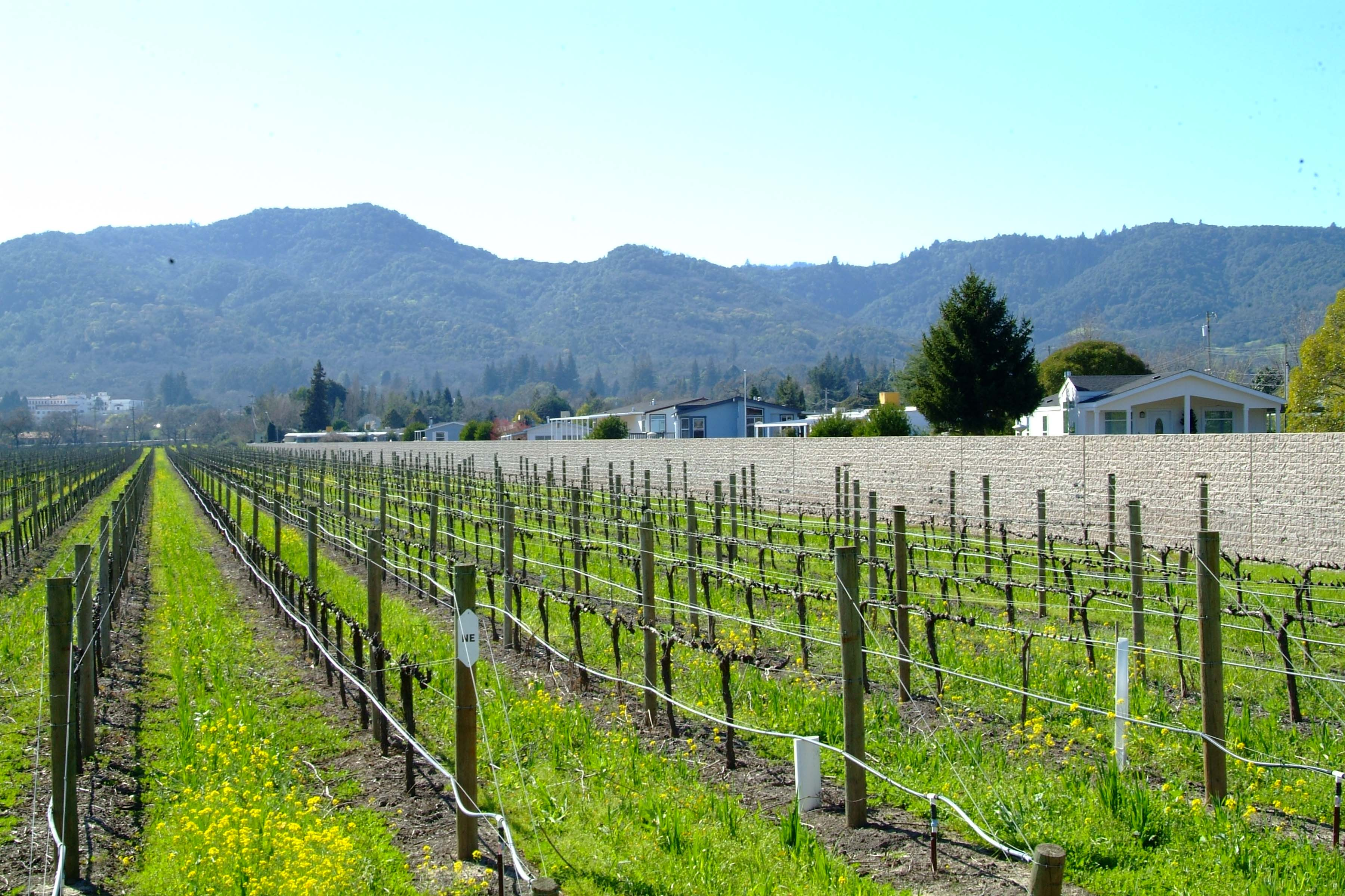 Yountville, CA, Feb. 14 2006 -- Floodwalls surround a town trailer park to mitigate flooding. Photo by Adam DuBrowa.